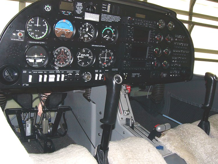 I took this photo of a Diamond DA20 C1 instrument panel at Carp Airport on 21 January 2006